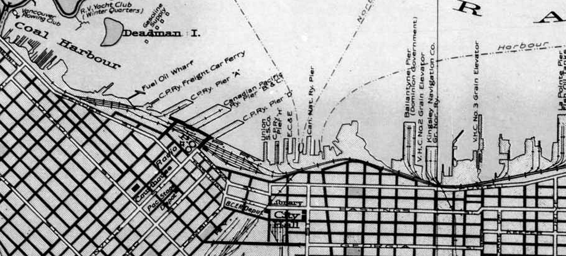 The image shows a closeup of Vancouver's old downtown and main docks in 1929, and also main civic features of note relevant to Gastown and History of Vancouver and Port of Vancouver and other articles.